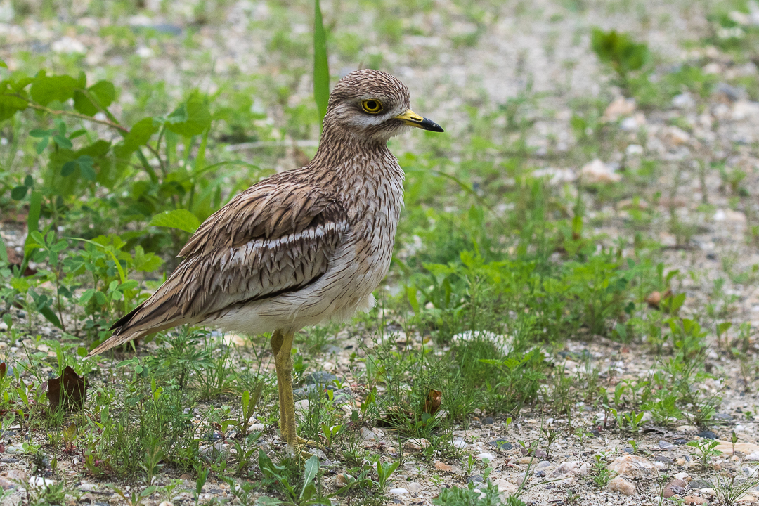 Eurasian Thicknee - Along Po river - Italy_FJ0A1202